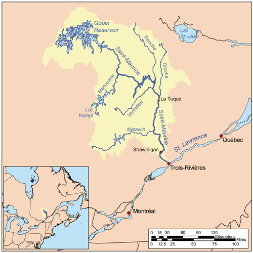 This is a map of the Saint-Maurice River drainage basin, created based on USGS and Digital Chart of the World data. [1] used as reference.